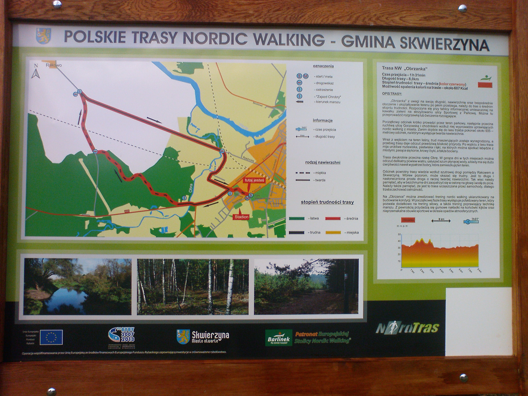 Nordic walking route in Skwierzyna, Lubuskie, Poland